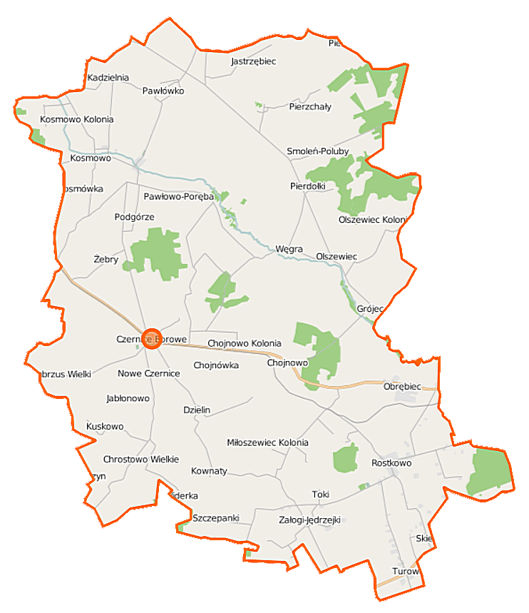 Map of Gmina Czernice Borowe, Poland This map of Czernice Borowe (gmina) was created from OpenStreetMap project data, collected by the community. This map may be incomplete, and may contain errors. Don't rely solely on it for navigation. Border coordinates53.109920.6594←↕→20.863052.9679